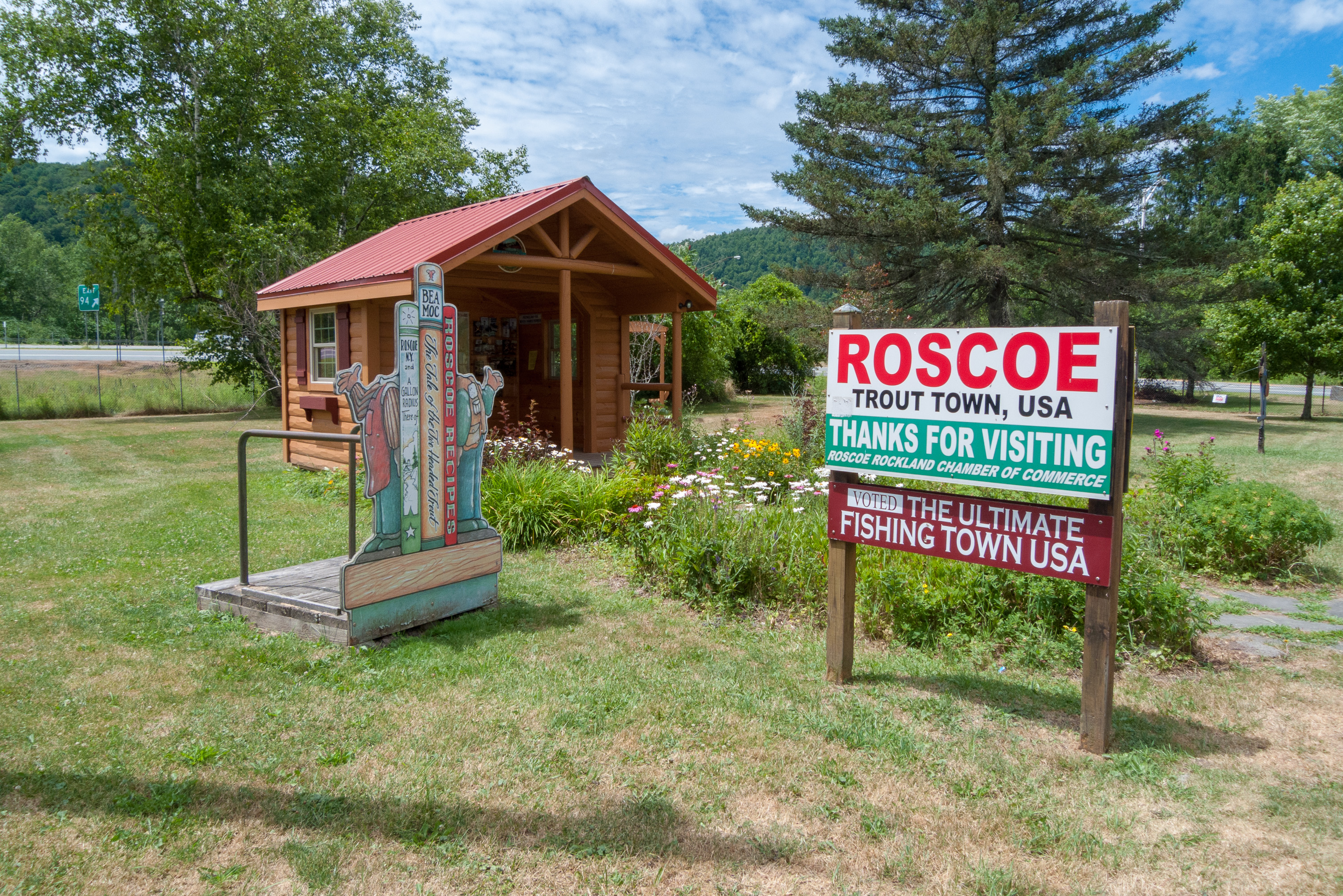 An information booth with information about Roscoe, New York.